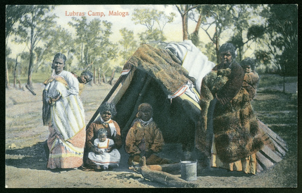 Postcard showing a group of women in bush setting, two standing beside bark shelter, two more seated at entrance of shelter, three of them holding babies. All the women are wearing European dress, woman on left also wrapped in animal fur. The image is captioned "Lubras Camp, Maloga". "Lubra" is an offensive 19th-century term, used in Australia for Aboriginal women.